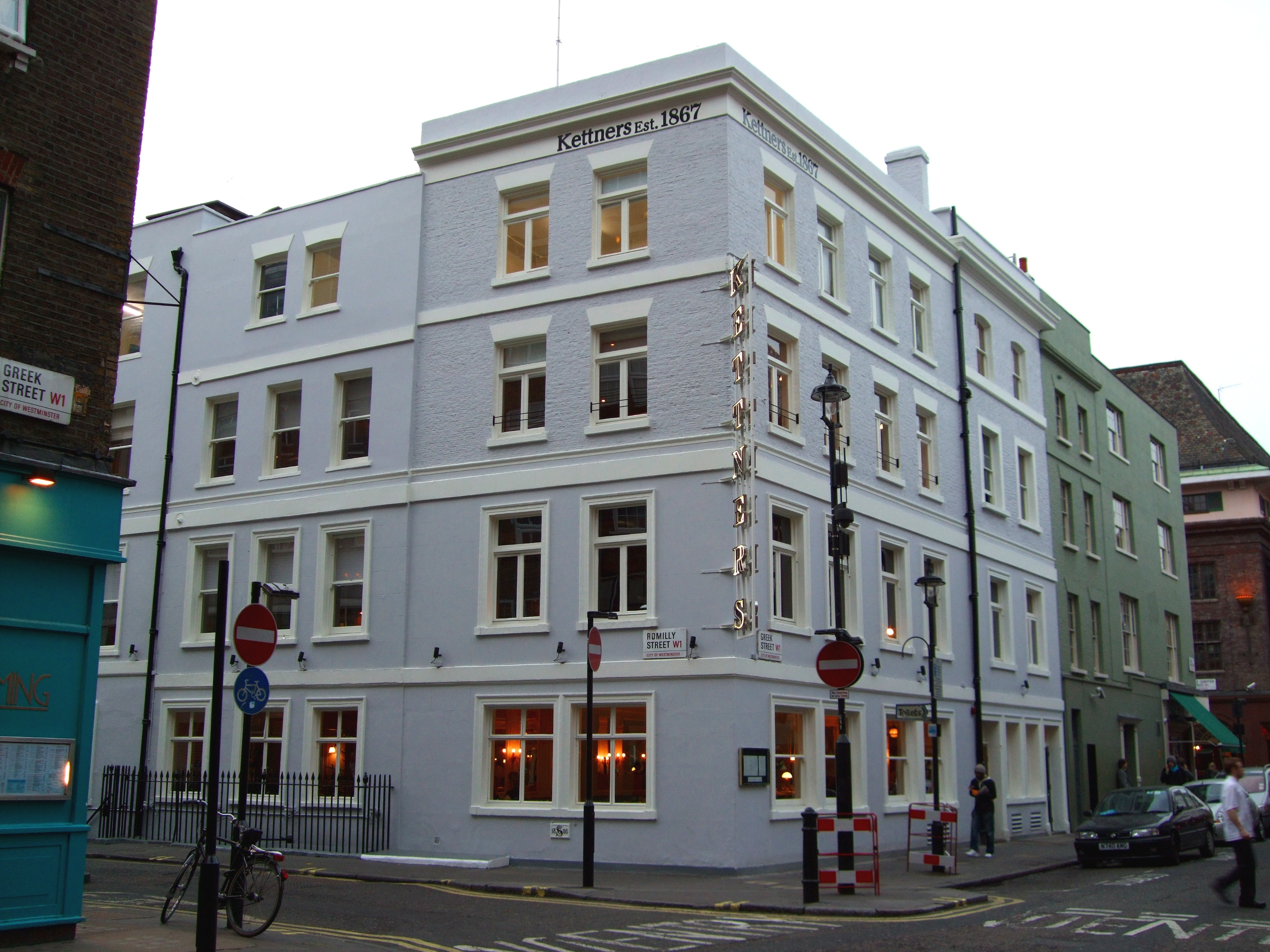 Long-standing champagne bar and restaurant at the corner of Greek and Romilly Streets. Address: 29 Romilly Street (the building is actually 28-32 Romilly Street, as well as 37-39 Greek Street). Owner: Gondola Group (website). Links: London Eating Qype --- The Evening Standard [Mark Bolland] The Evening Standard [Liz Hoggard] The Guardian [Matthew Norman] Metro [Marina O'Loughlin] --- A Girl Has to Eat